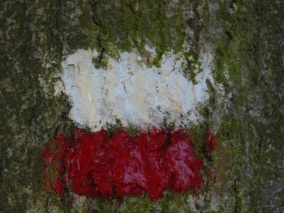 The characteristic white and red stripes that mark the path of a GR footpath